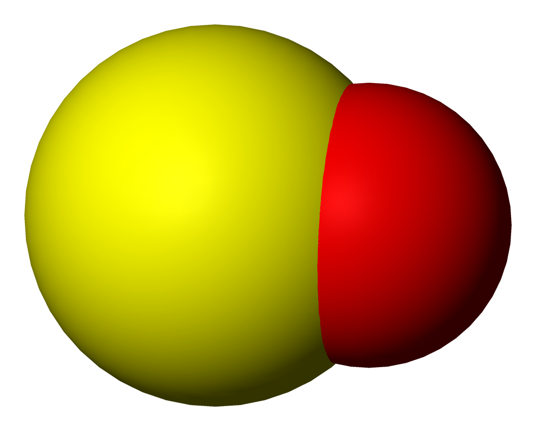 Space-filling model of the sulfur monoxide molecule, SO